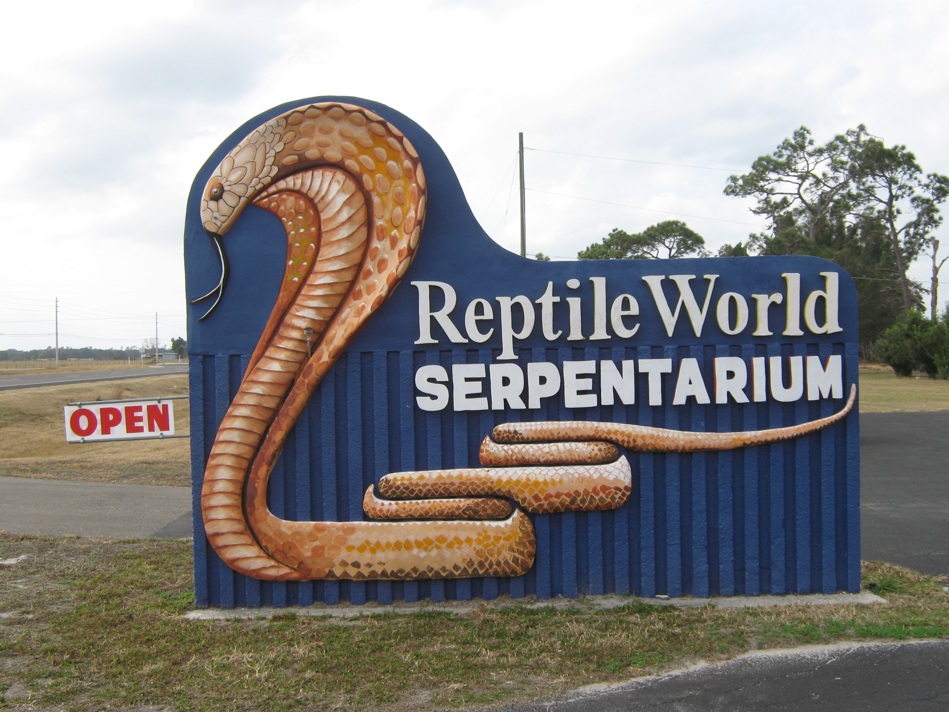 Sign at Reptile World Serpentarium, 5705 East Irlo Bronson Memorial Highway, St. Cloud, Florida.